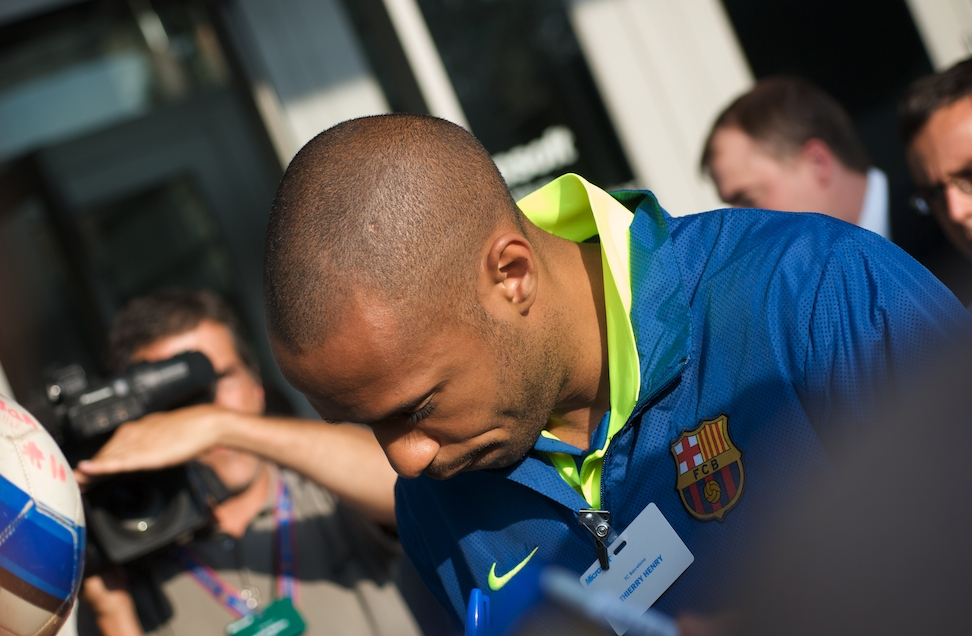 Thierry Henry